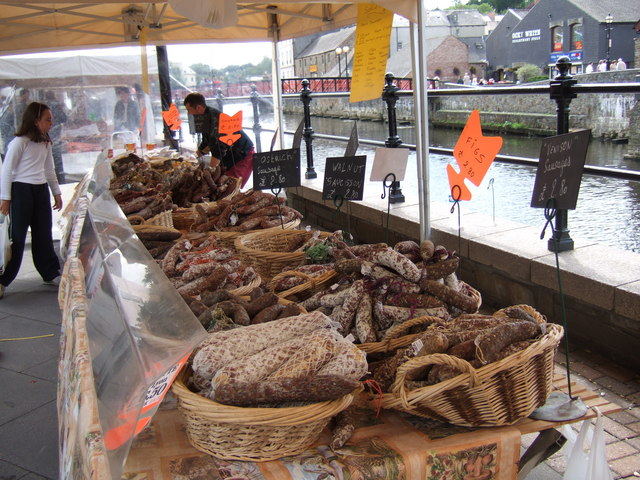 Sausage stall, Haverfordwest French Market. The varieties include ostrich, venison, boar, fig and walnut.